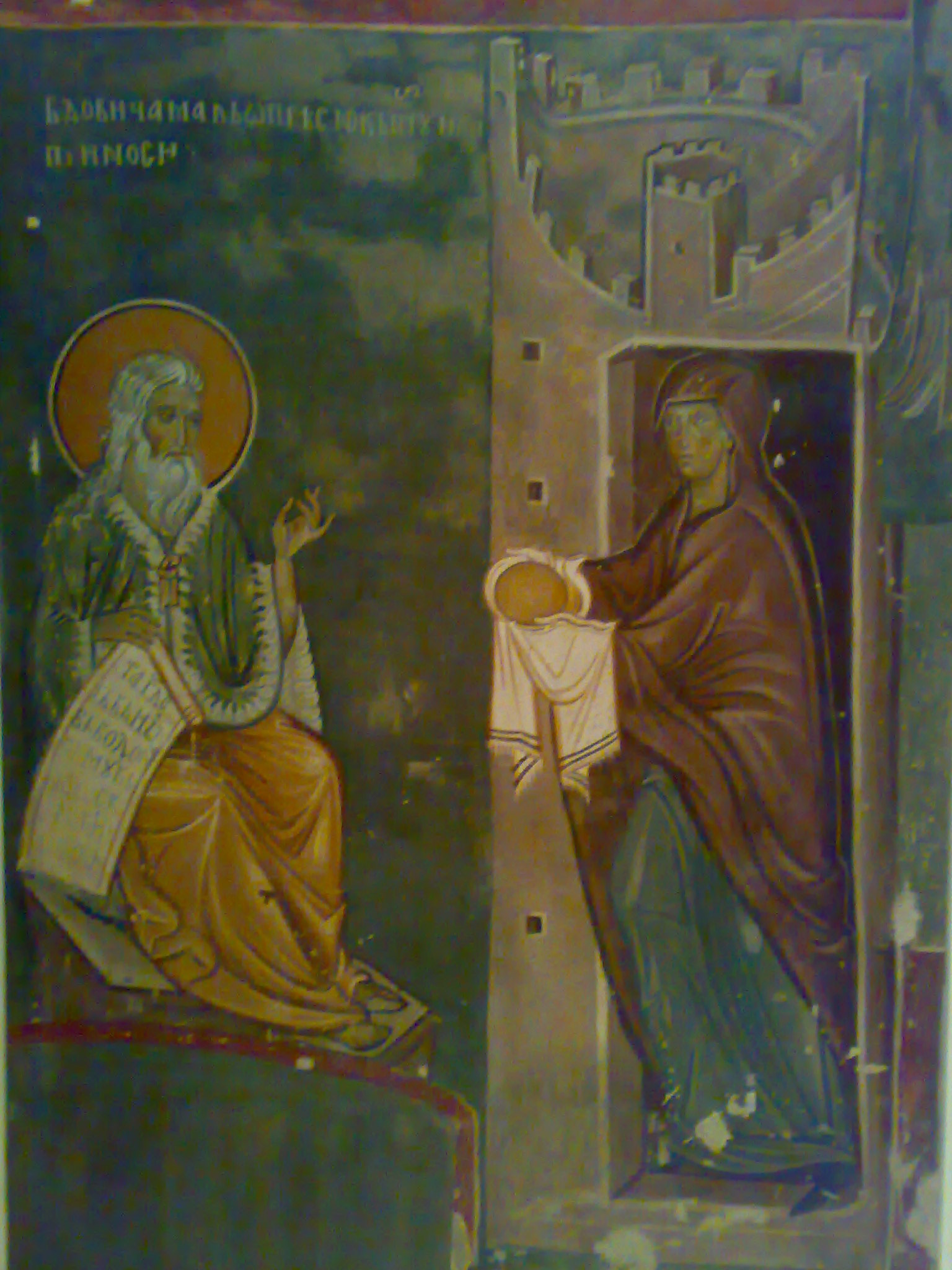 Replica of icon painting from Moraca monastery in Montenegro, 13th century. Photo taken in Hist Museum, cetinje.